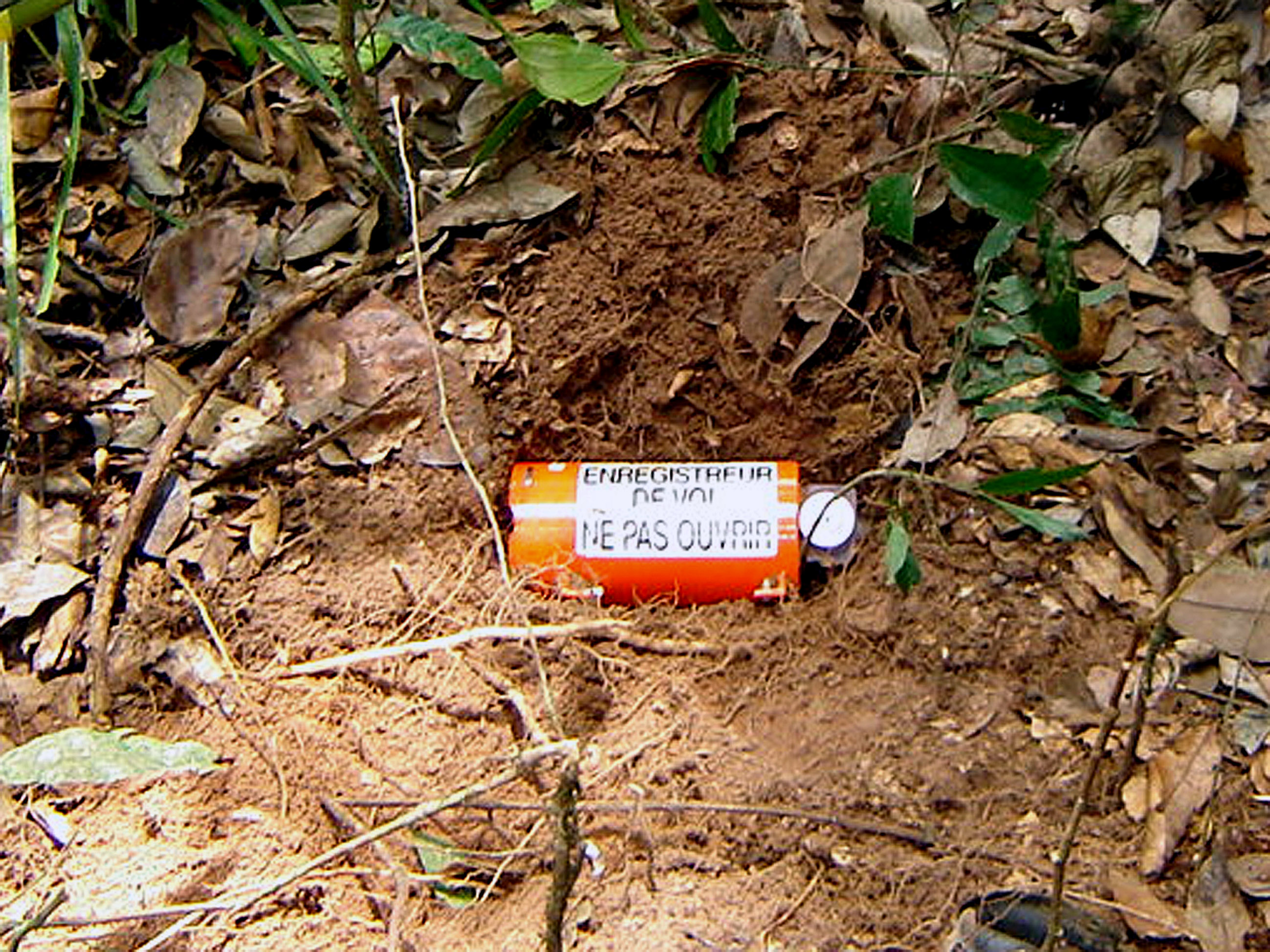 The cockpit voice recorder (CVR) from the Boeing 737-800 (Gol 1907) aircraft - The military found it on September 29, 2006 in northern Mato Grosso, Brazil